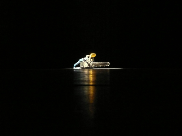 La Forêt